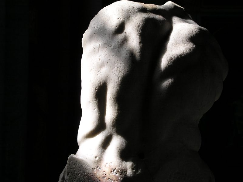 Belvedere Torso.